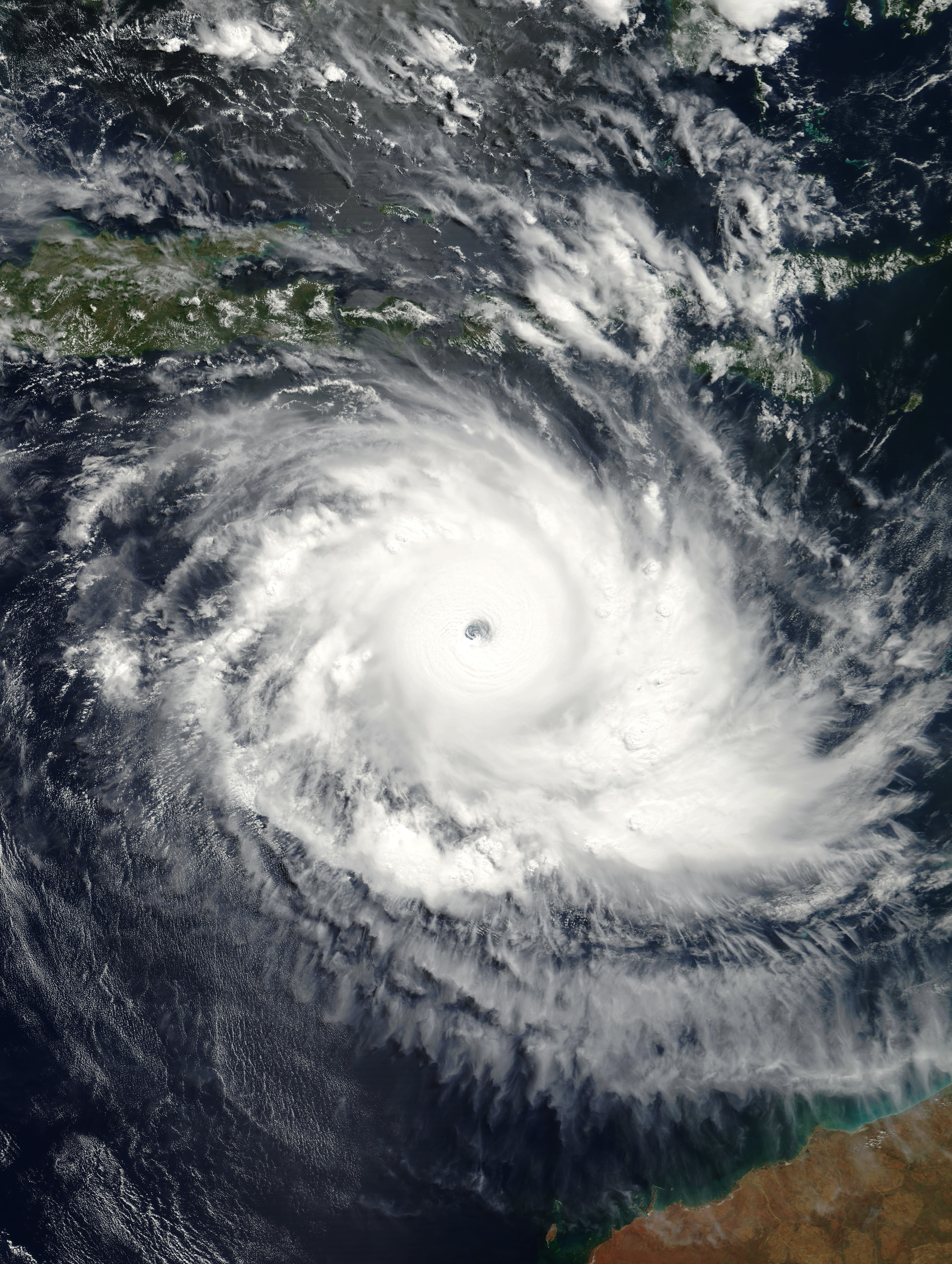 Severe Tropical Cyclone Inigo on April 4, 2003